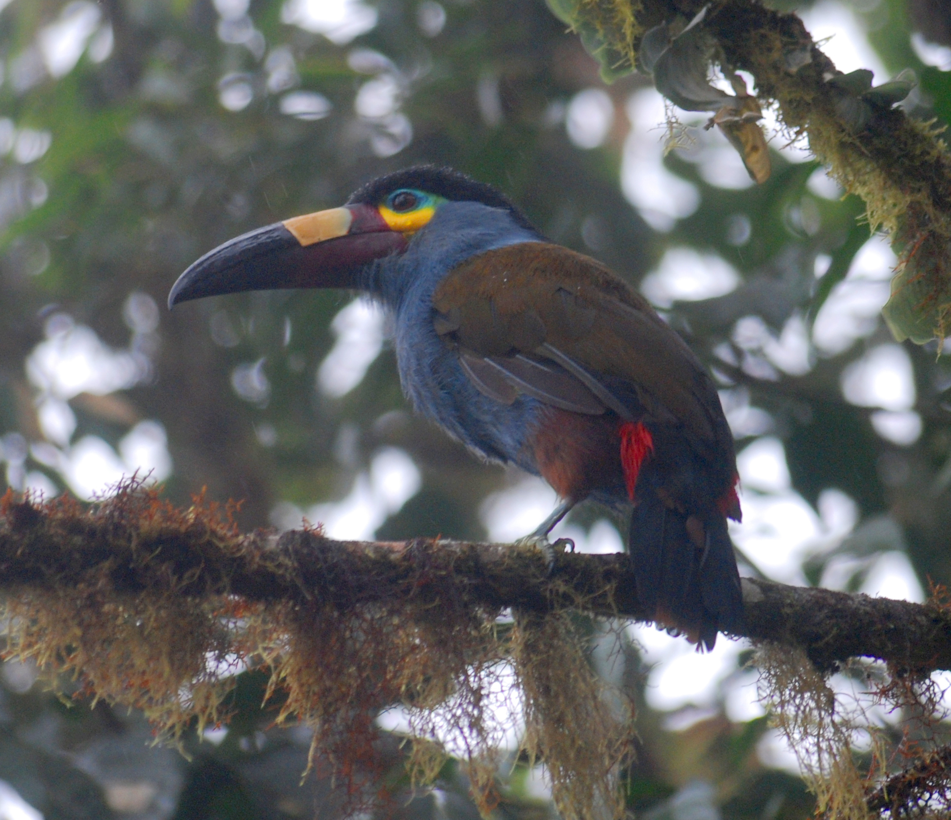 Plate-billed Mountain-toucan (Andigena laminirostris) at the Bellavista Cloud Forest Reserve in Ecuador.